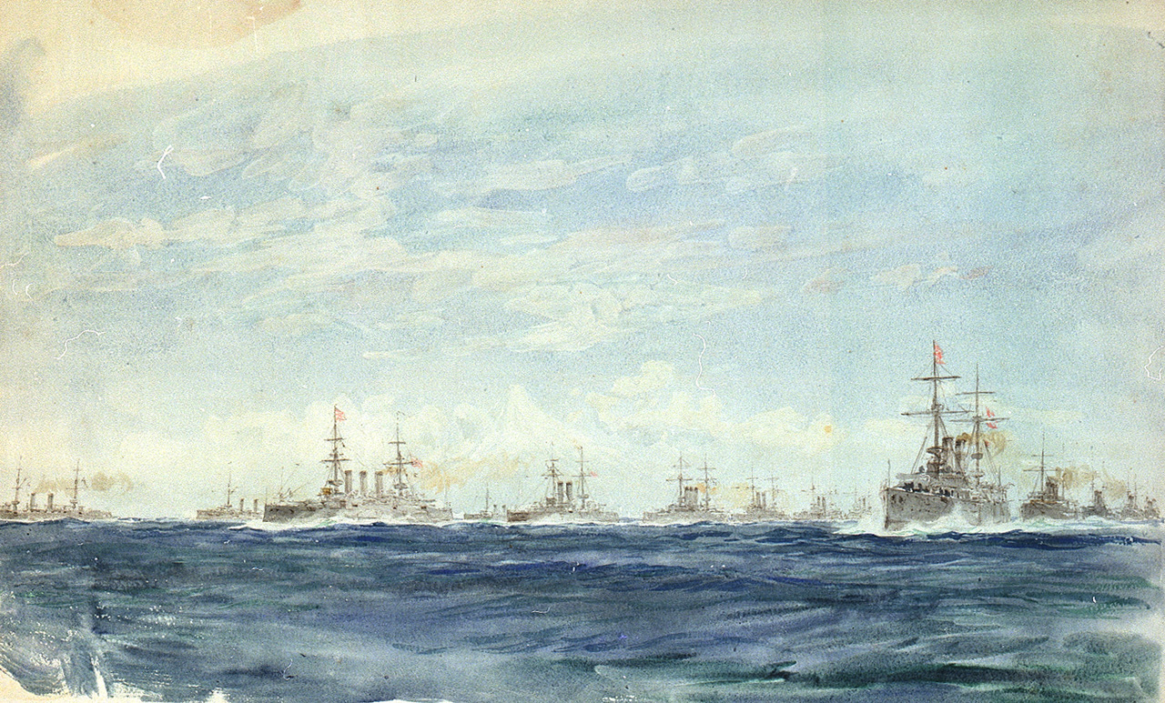 The Japanese Imperial Fleet at sea on manoeuvres, 1902-04 A watercolour study of the Japanese fleet at sea during manoeuvres in the period 1902-04. Cruisers are in the starboard column. The centre column is of battleships and armoured cruisers. The leading ship and the third in line are the battleships 'Hatsuse' (1899) and 'Shikishima' (1898). The battleship leading the port column is the fleet flagship 'Mikasa' (1900).The drawing can be dated post March 1902 and prior of 15 May 1904, when the 'Hatsuse' was sunk in the Russo-Japanese War. The British-built 'Mikasa' was Admiral Togo's flagship at his victory over the Russians at the Battle of Tsushima, 1905, and though now encased in concrete to waterline level is preserved as a restored historic vessel outside the Yokosuka Naval Base just south of Tokyo.